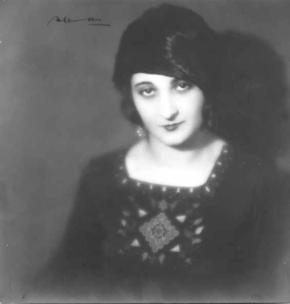 Anna Walinska lived in Paris in the late 1920's and studied painting there with André Lhote